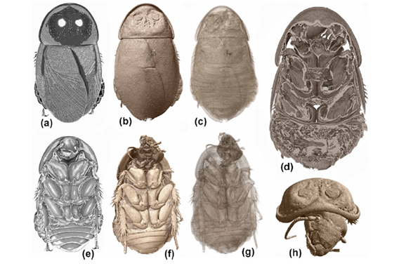 Lucihormetica luckae